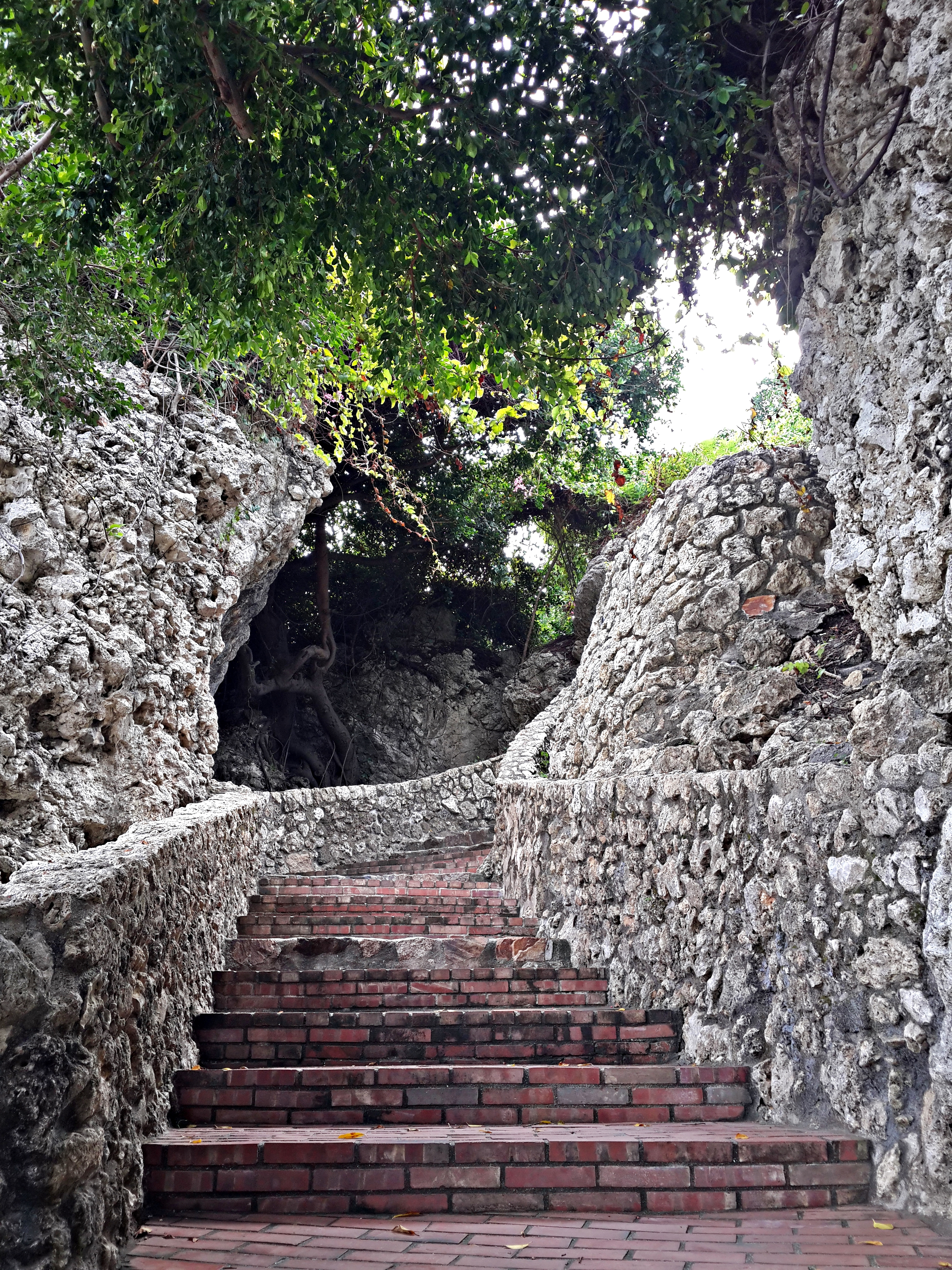 This hiking trail is connects the former British Consulate’s Residence on the hill to the former British Consulate on the coast and has been part of the economic development since the opening of the Kaohsiung Harbor. Its construction is evidence of the adaptive measures that must have been taken in order to negotiate the restriction posed by the terrain.it is worth being carefully preserved.